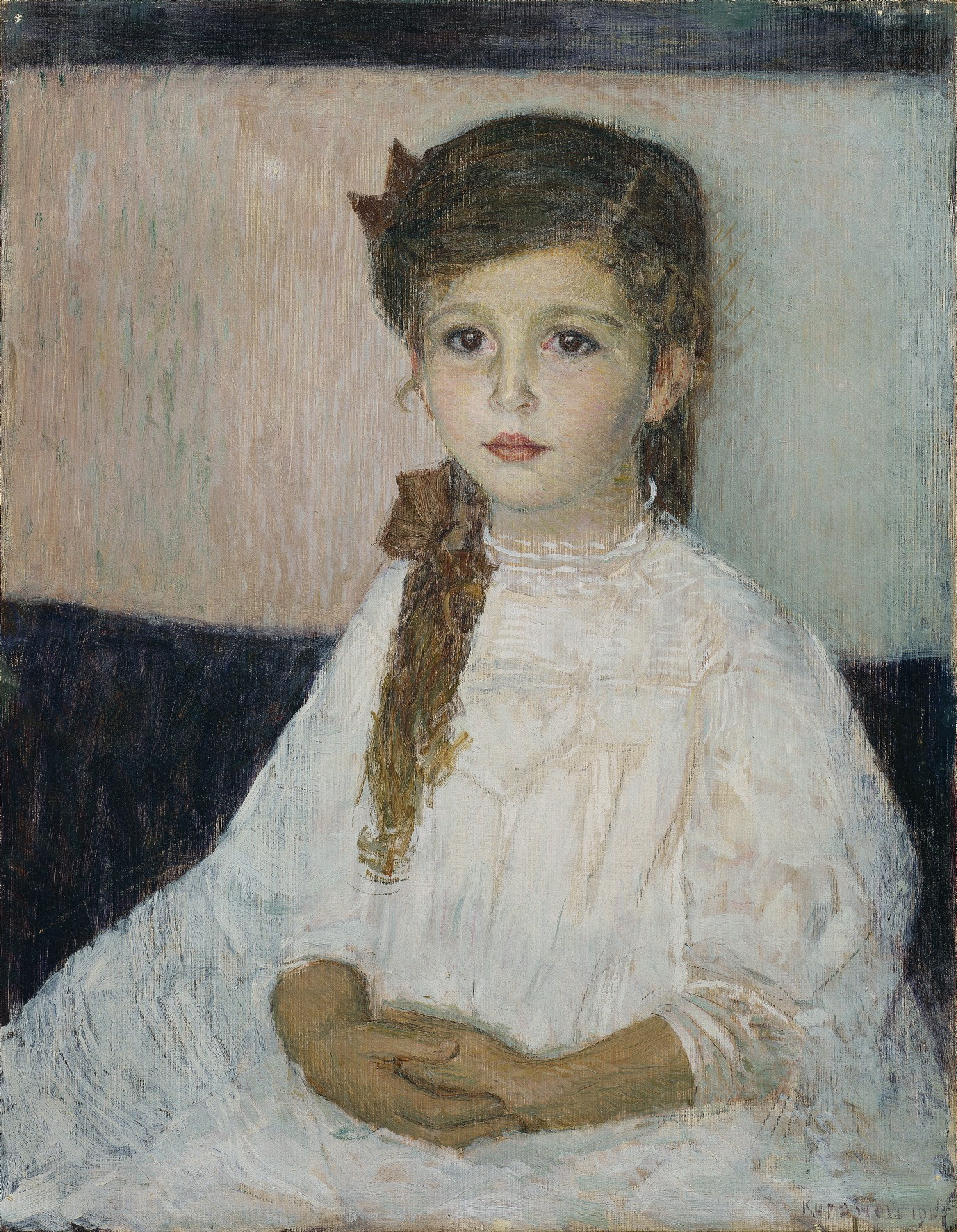 Bettina Ehrlich (born 19 March 1903), painter and niece of Adele Bloch-Bauer